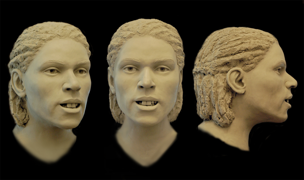 Unidentified woman found dead in Newport News, Virginia in 2014.